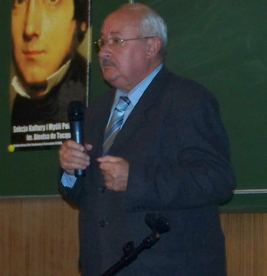 Prof. Maciej Jerzy Serwański - lecture about Louis XIV organised by Zakład Kultury i Myśli Politycznej Instytutu Historii UAM (Departament of Political Thought and Culture - Institute of History AMU Poznań. - 14.01.2009.